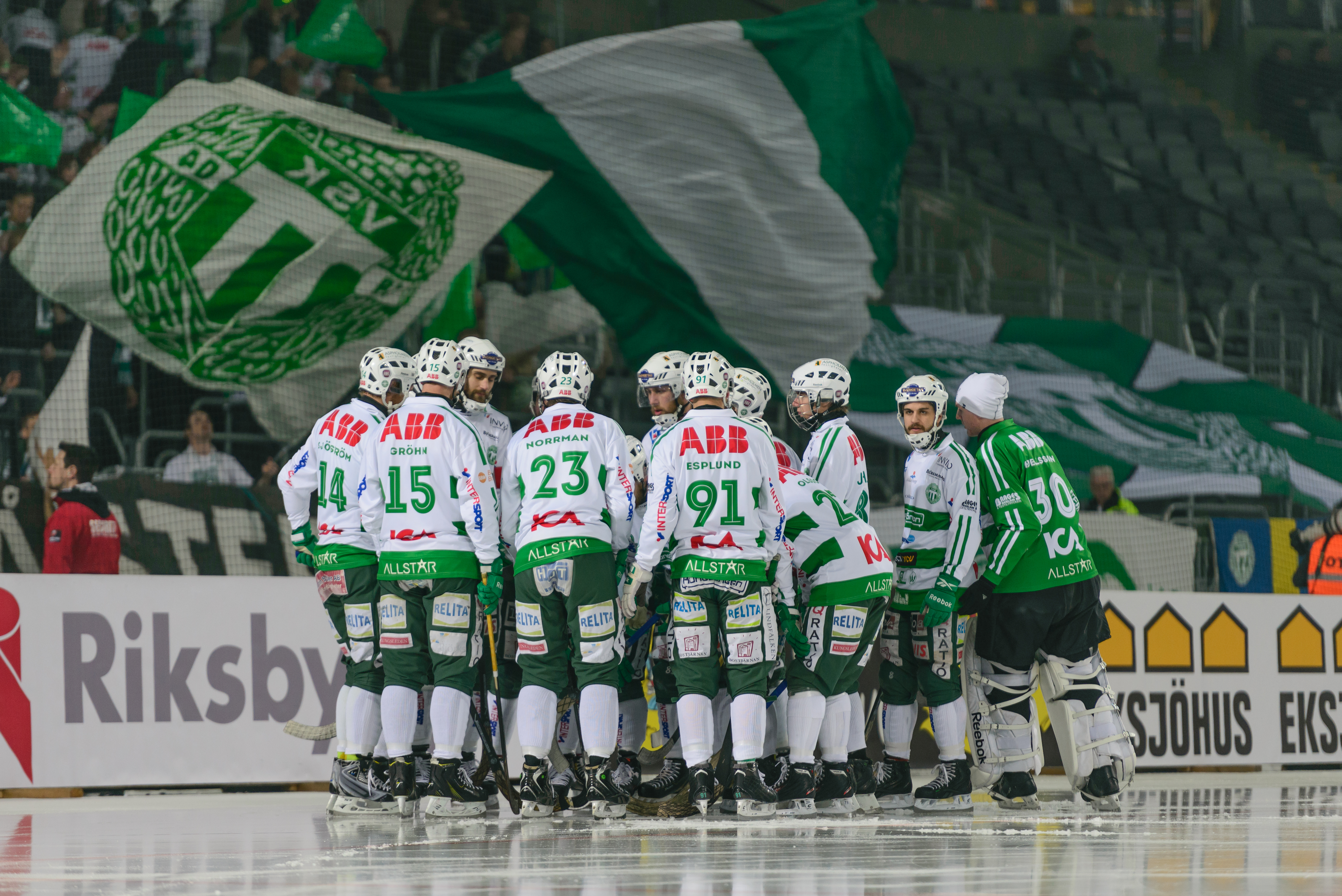 Swedish bandy championship final game of 2015, Sandvikens AIK (black)-Västerås SK (green/white) 4-6.